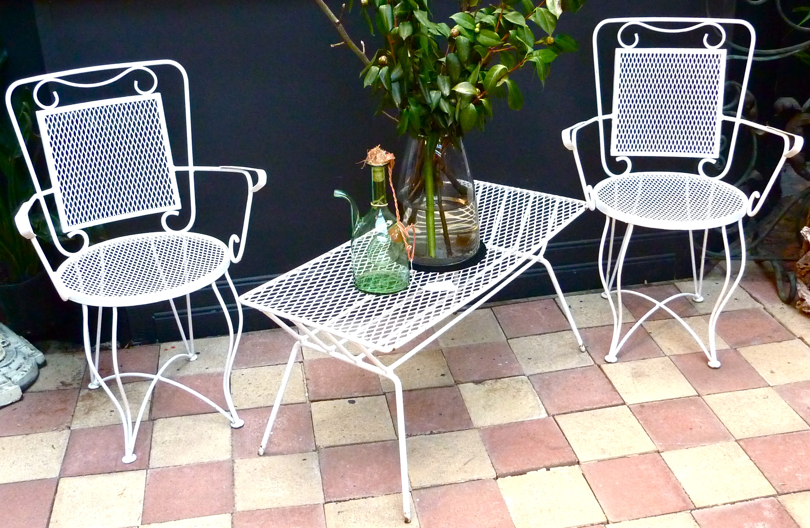 White three piece metal garden setting, with glass jug and glass vase on table.